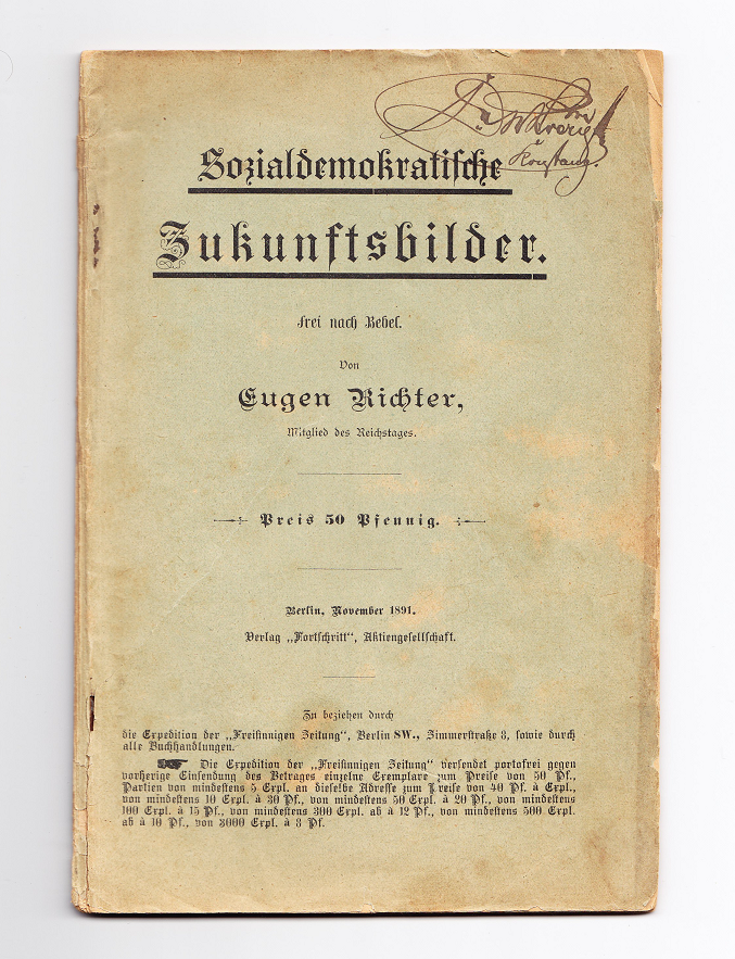 Title page of Eugen Richter's "Sozialdemokratische Zukunftsbilder" (Pictures of the Socialist Future)